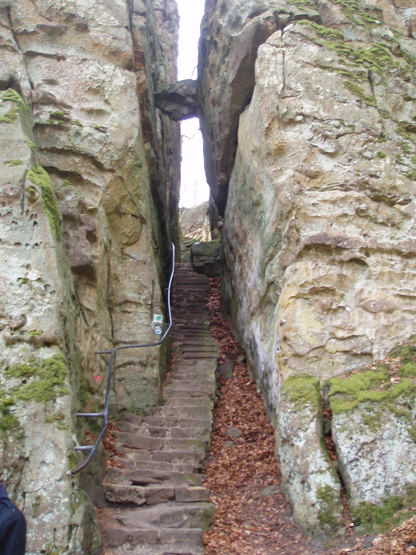 Ernzen Teufelsschlucht